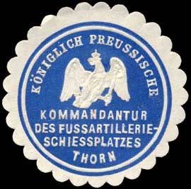 Sealing stamp Title: K. Pr. Kommandantur des Fussartillerieschiessplatzes Thorn Description: Place: Thorn size: 4 cm